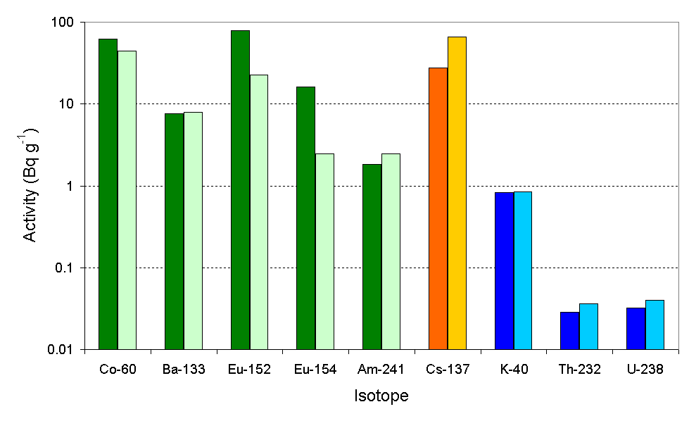 Levels of radioisotopes in the glass formed by the first atom bomb test as measured by gamma spectroscopy. I have taken the results in a paper and then used these to draw the bar chart.